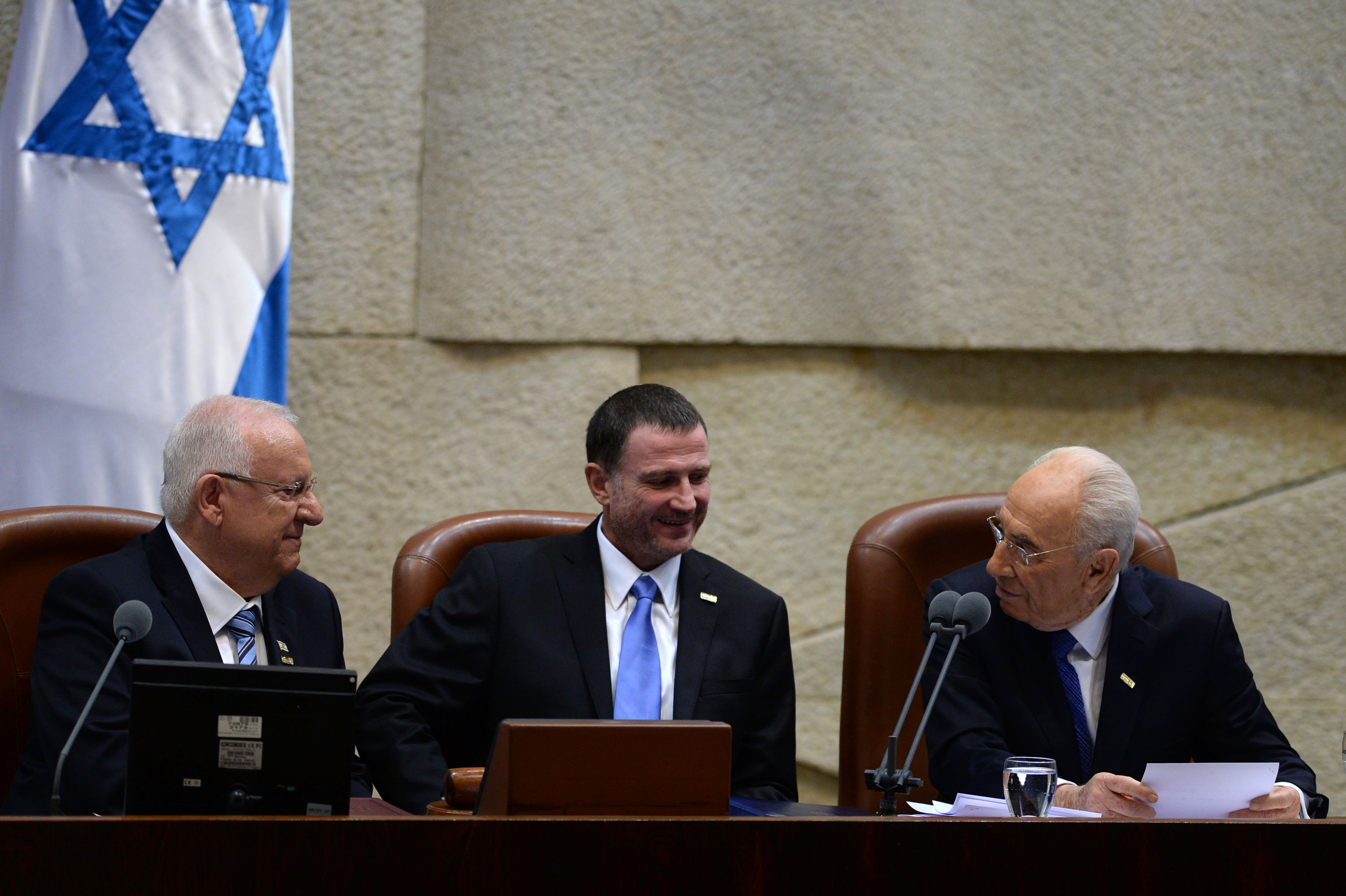 טקס השבעת אמונים בכנסת לנשיא הנבחר של מדינת ישראל ראובן רובי ריבלין Photo by Kobi Gideon / GPO